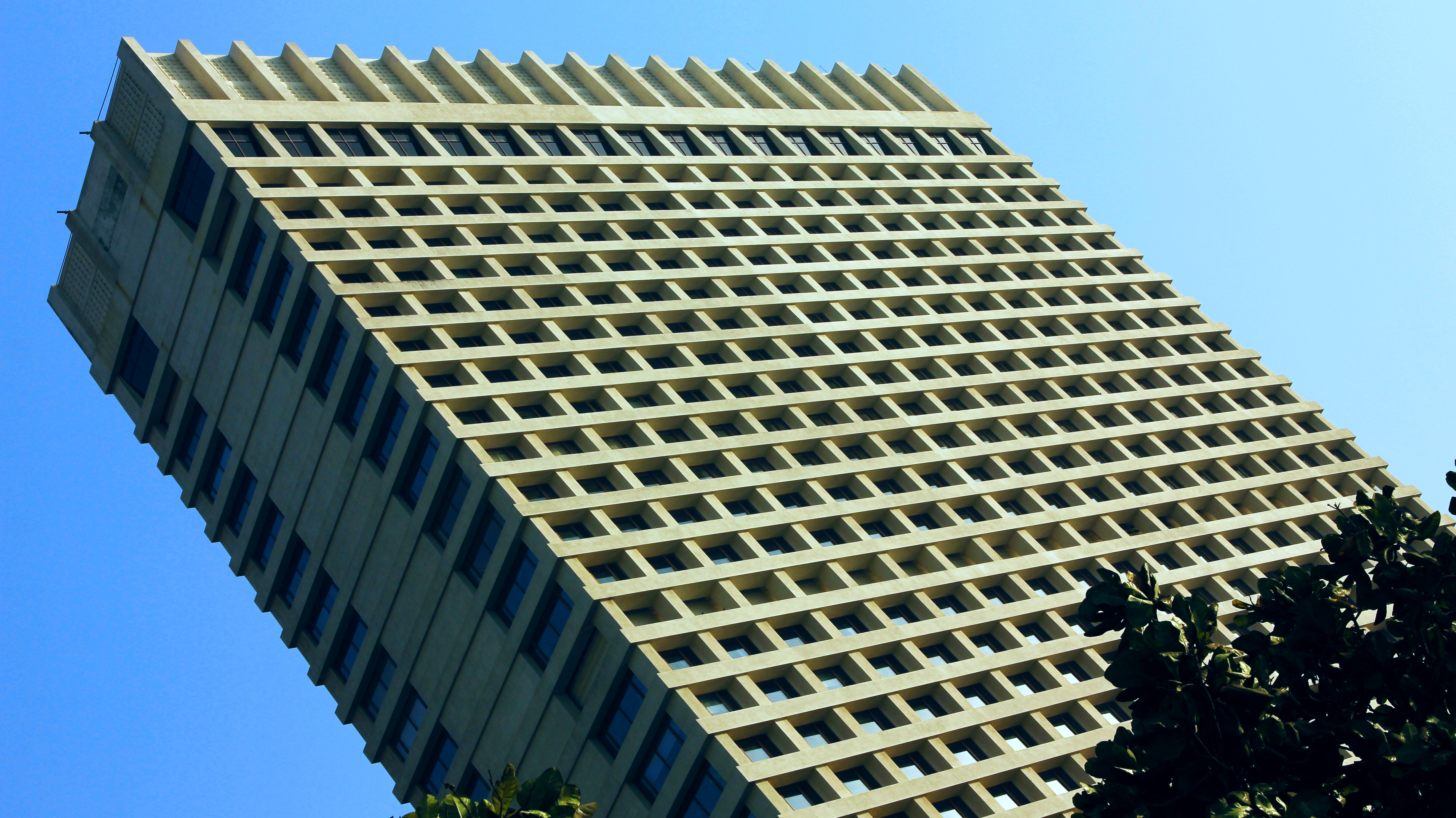 The Trident in 2012